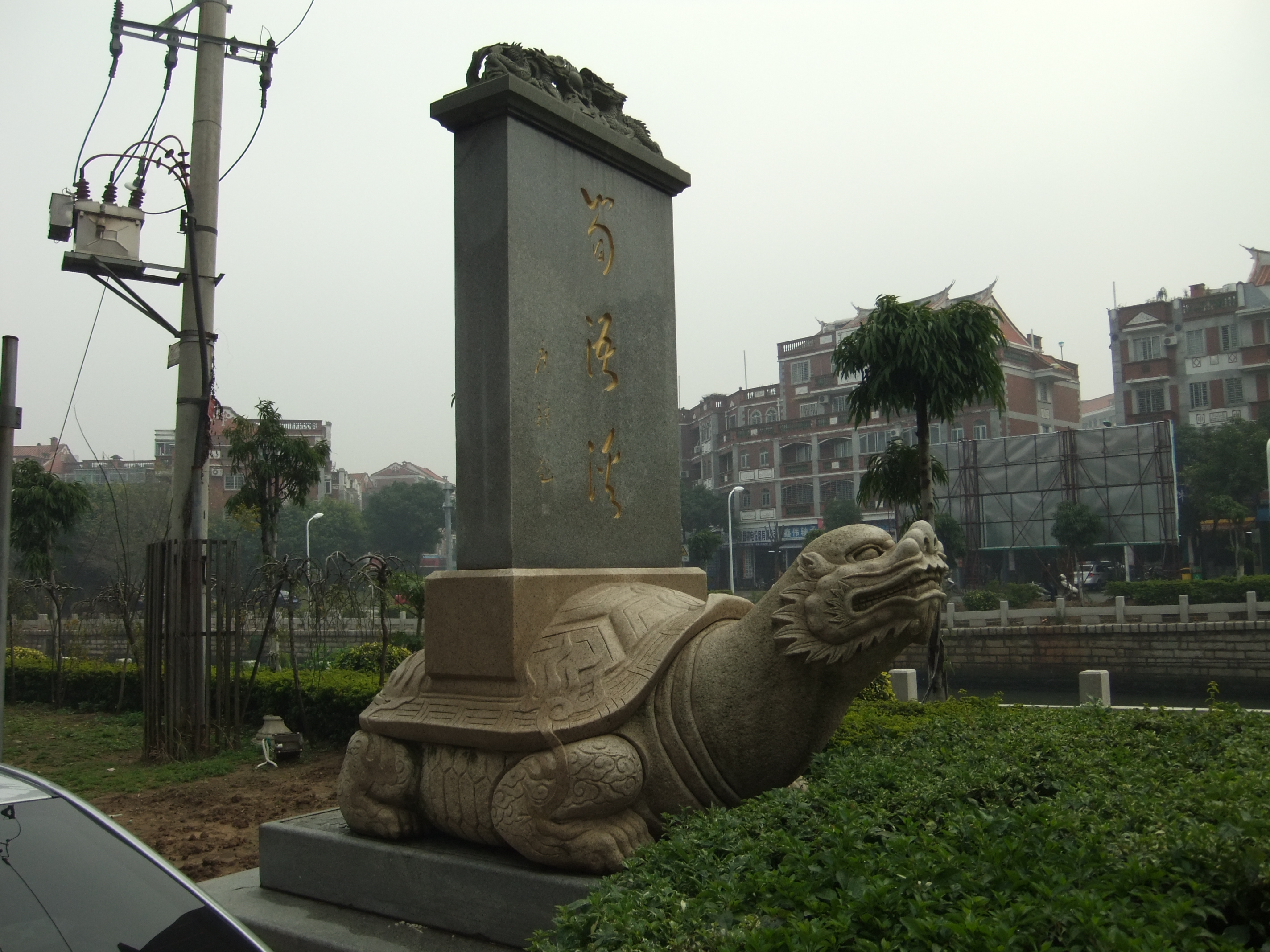 A bixi turtle with a stele on the bank of Sunwu Creek (Sunwu xi), NW of downtown Quanzhou, Fujian. The stele, installed by the People's Government of Licheng District and dated December 1998, tells the story of the creek dredging project(s). The bixi turtle, although modern in its provenance, is crafted more or less in the Qing-dyansty style. The top of the stele is decorated with two dragons playing with a pearl - a traditional motif, but rendered here as a sculpture, rather than (more traditional) relief.